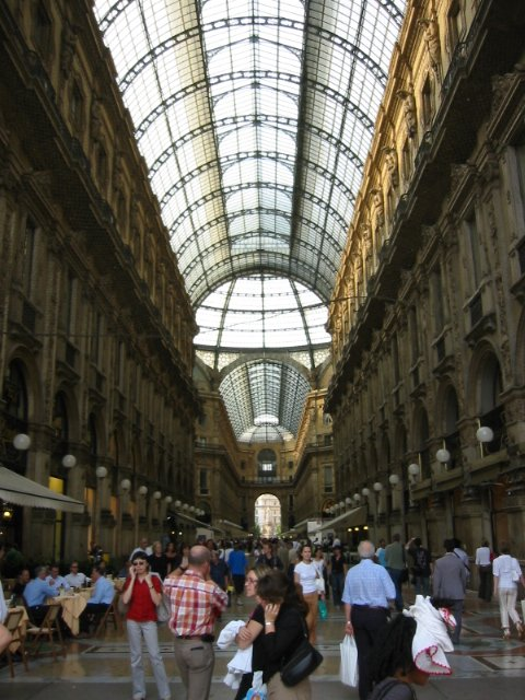 Gallery Vittorio Emanuele II in Milan, Italy, towards Piazza della Scala. Inside view.